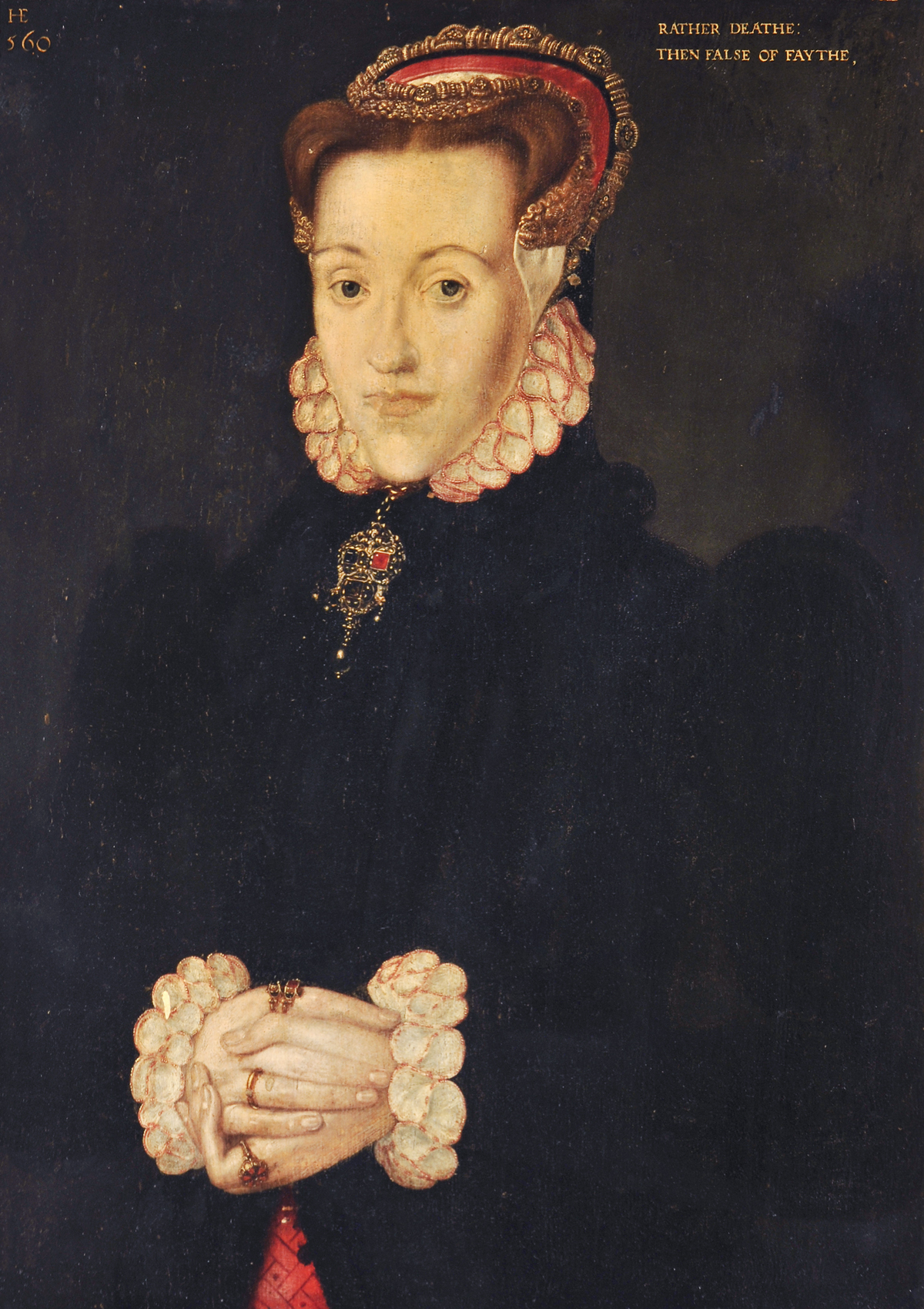 Portrait of a Lady, Called Anne Ayscough or Askew (1521–1546), Mrs Thomas Kyme.